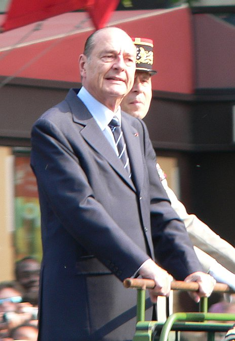 Jacques Chirac, reviewing the troops during the July 14, 2006, military parade on the Champs Élysées in Paris